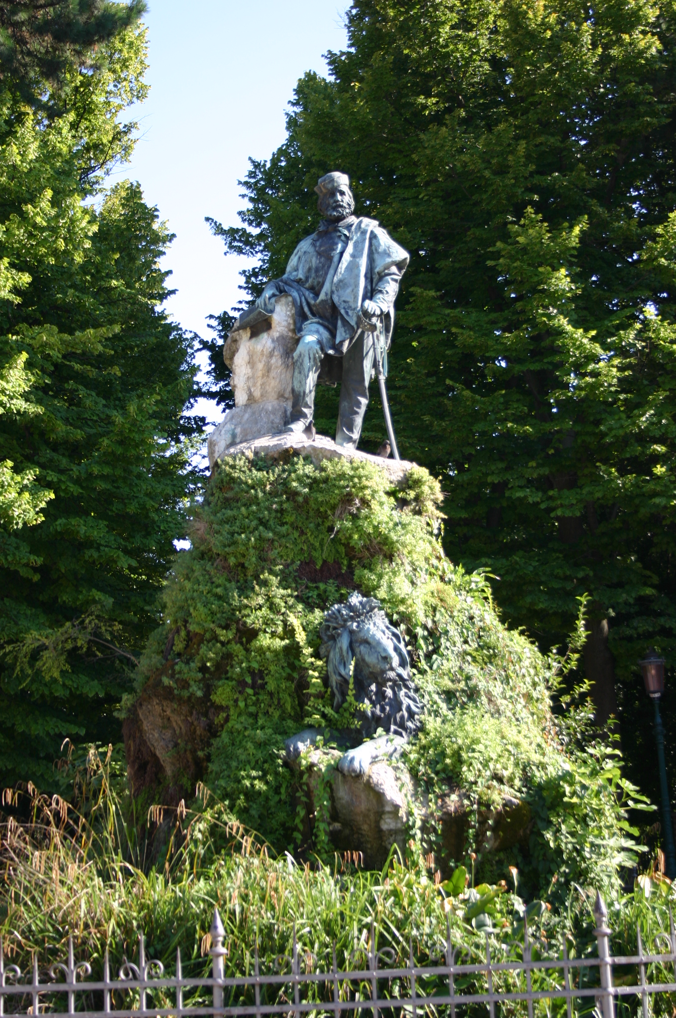 The 1885 bronze monument to Giuseppe Garibaldi, modelled by Augusto Benvenuti (1833-1899), stands in the Public Gardens of the town. Picture by Giovanni Dall'Orto, August 3, 2007.